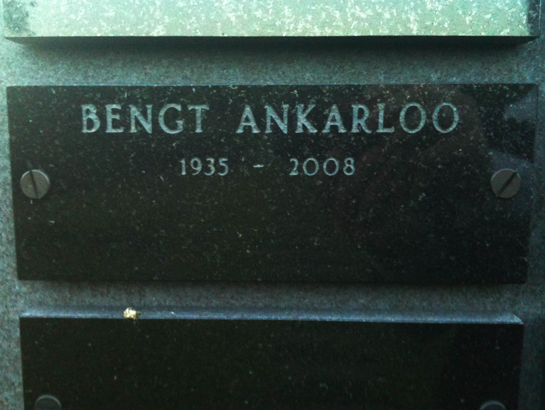 Grave of swedish professor in history, Bengt Ankarloo (1935-2008) at Norra kyrkogården, Lund, Sweden. Photo by the uploader.